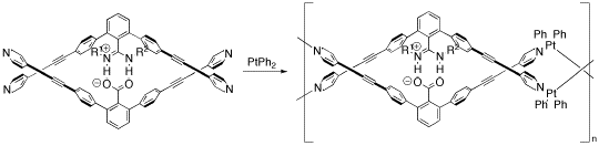 Happy Face